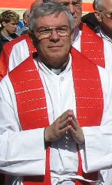 Thomas Löhr, Auxiliary Bishop of Limburg